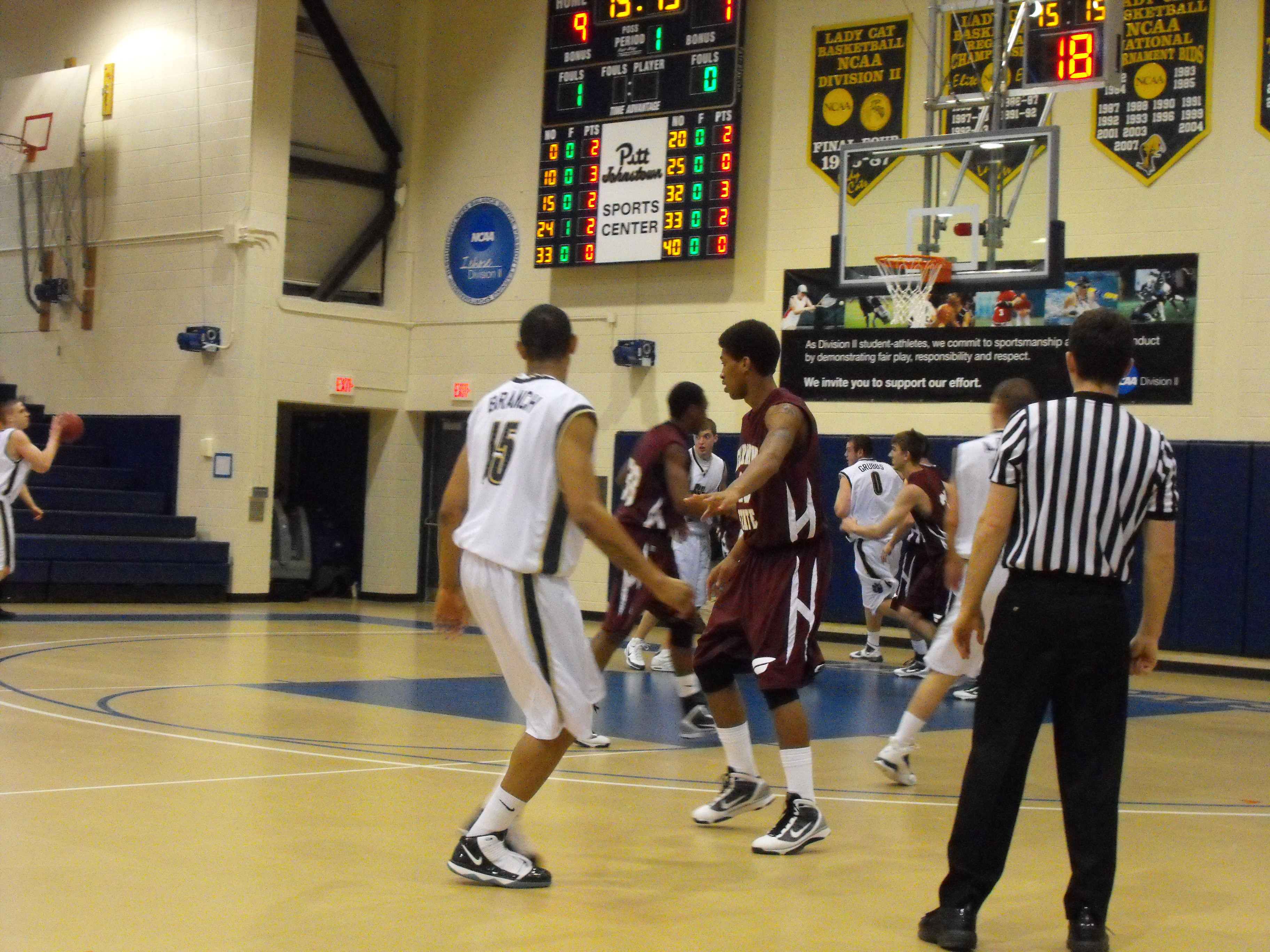 More Pitt Johnstown action (UPJ vs Fairmont State)